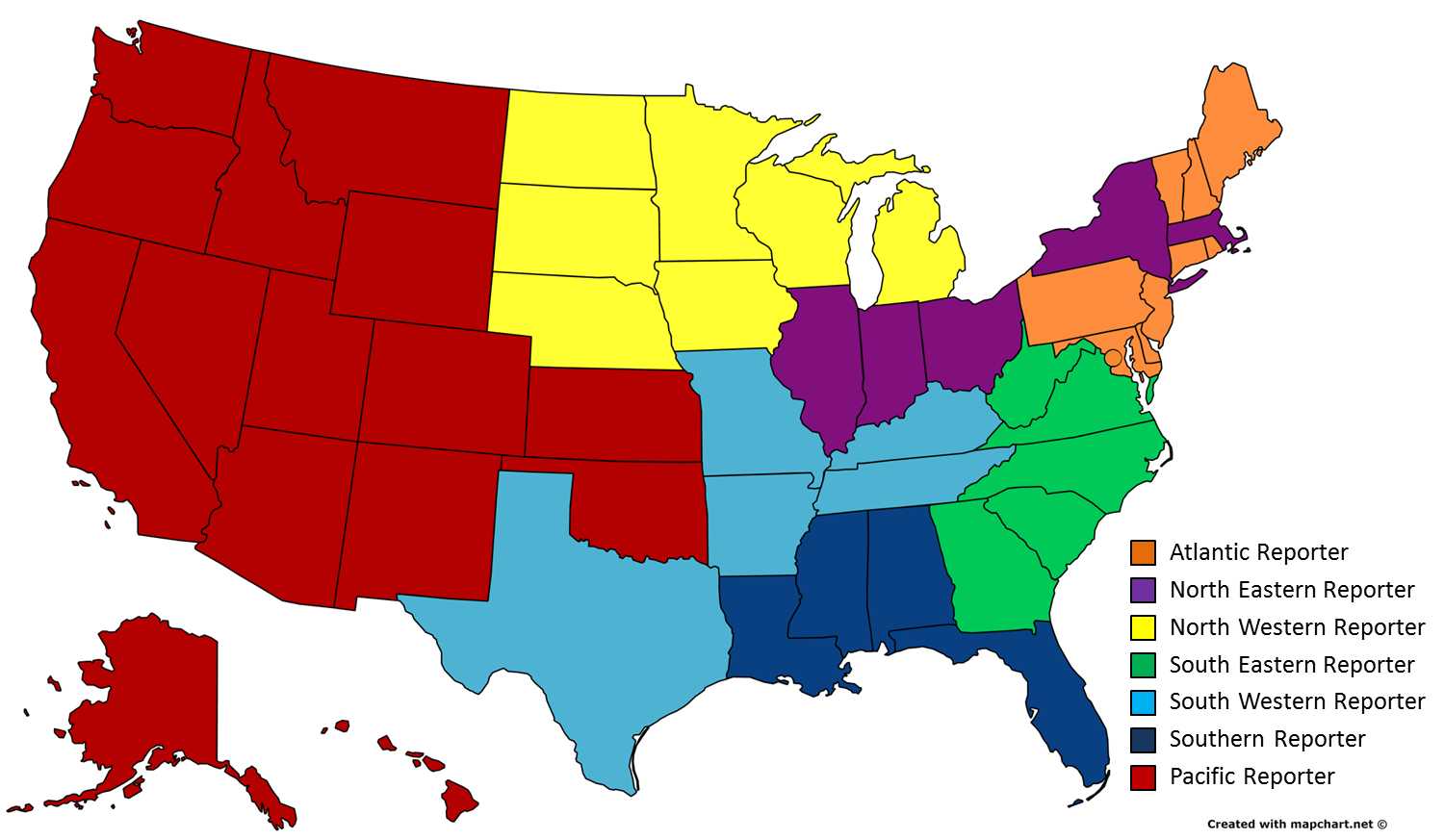 Atlantic Reporter = Orange North Eastern Reporter = Purple North Western Reporter = Yellow South Eastern Reporter = Green South Western Reporter = Cyan Southern Reporter = Blue Pacific Reporter = Red